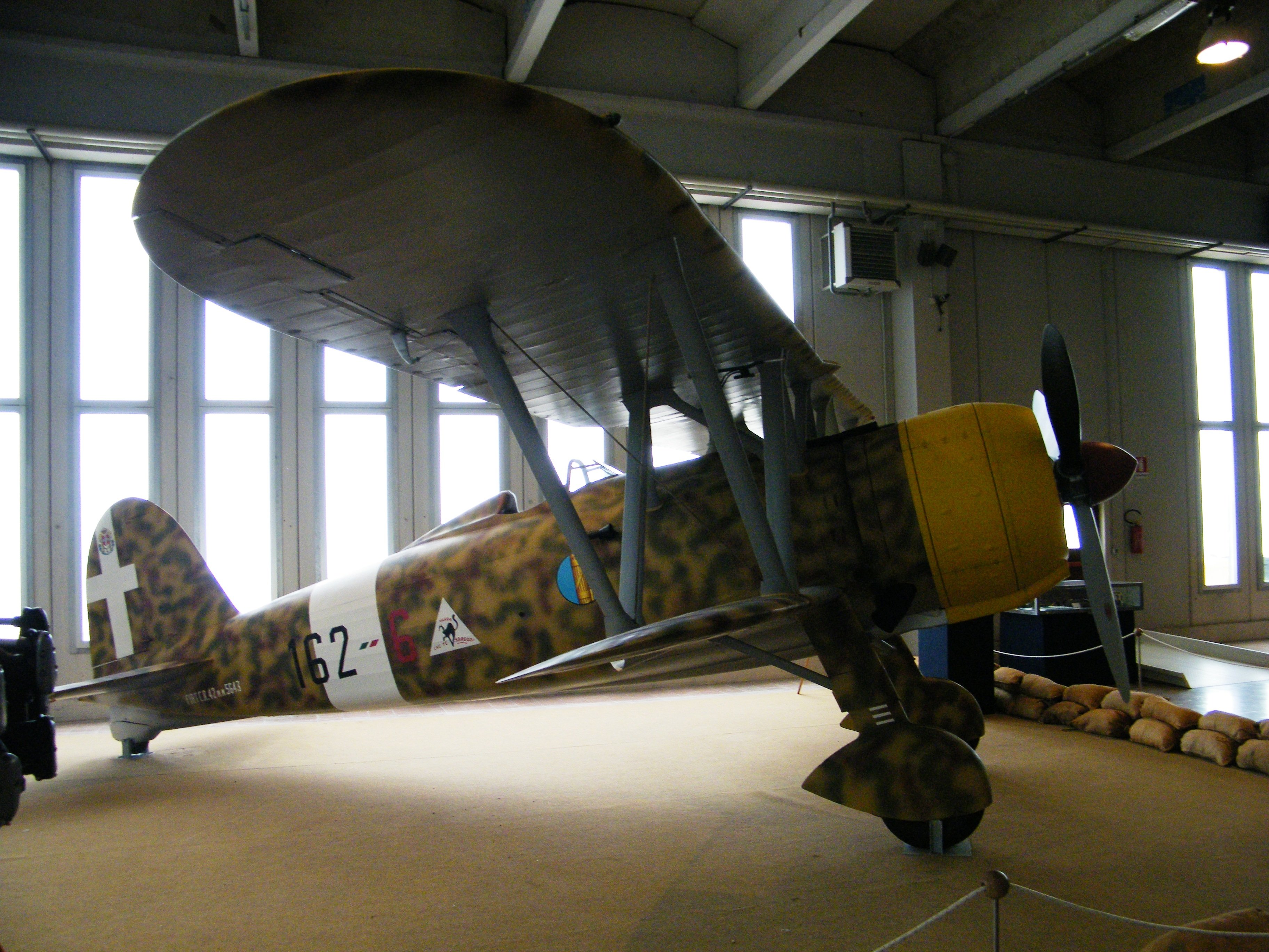 Fiat CR.42 at the Italian Air Force Museum, Vigna di Valle in 2012